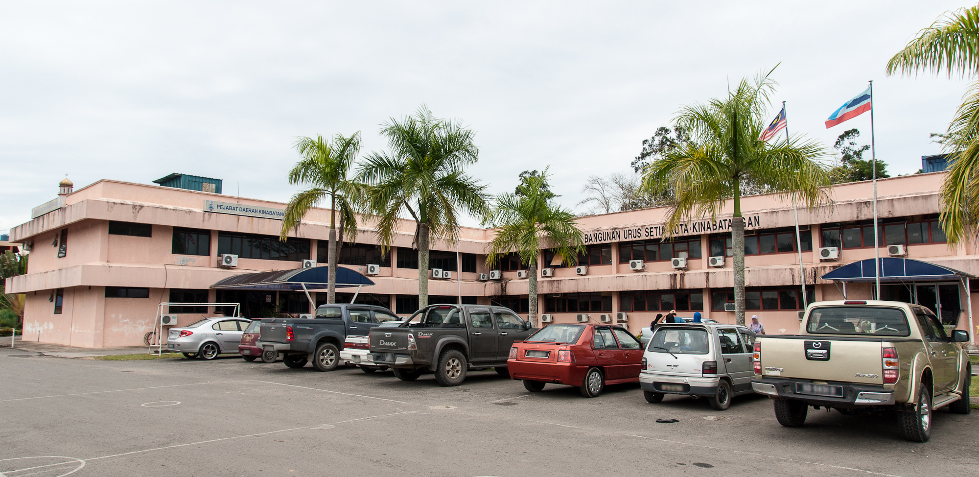 Kota Kinabatangan District Office (Majlis Daerah Kinabatangan)